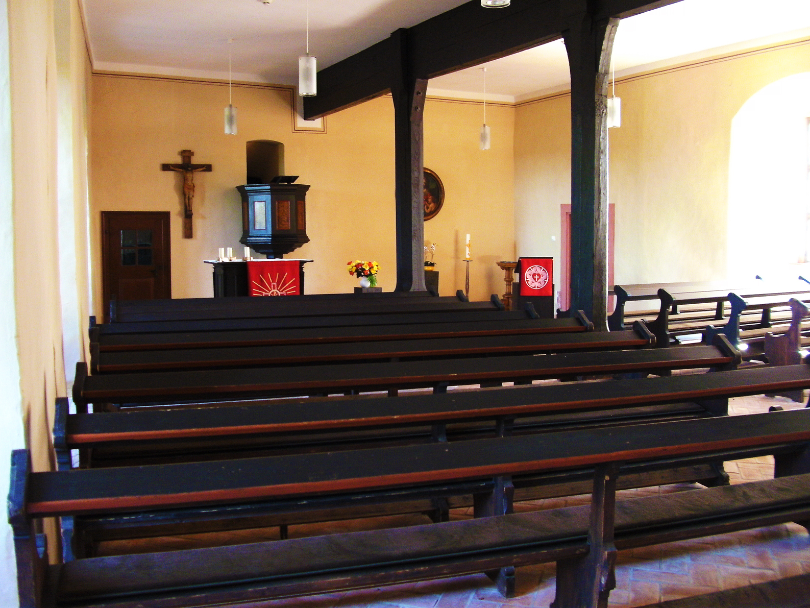 renovated chapel Lichtenberg castle